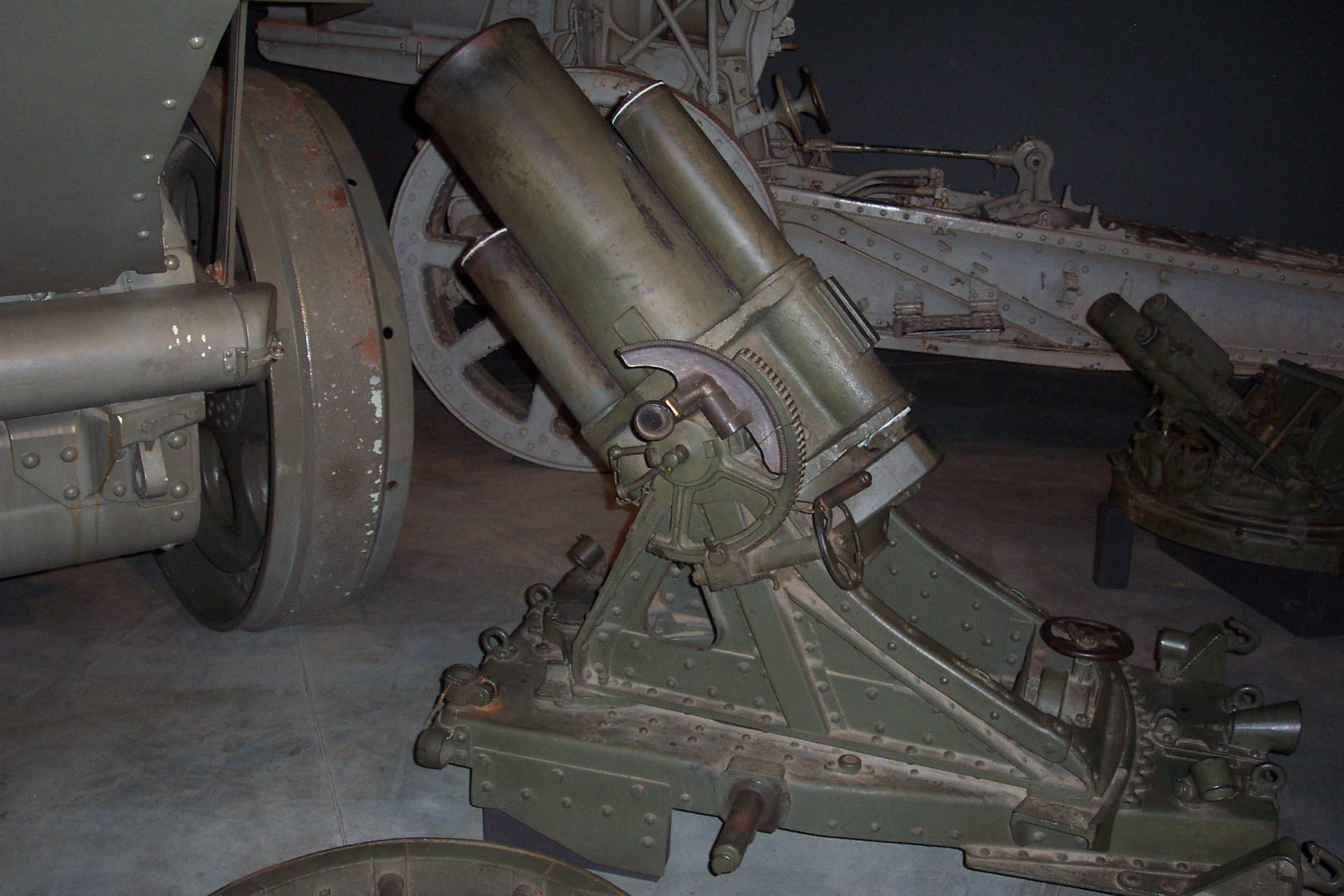 Photograph of German 25 cm Minenwerfer model 1916 (n/A), on display at the Australian War Memorial, Canberra.